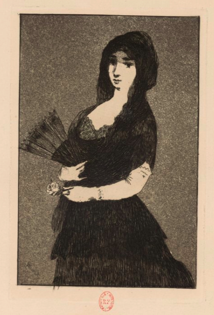 Fleur exotique, eau-forte d'Édouard Manet pour le poème d'Armand Renaud, in Sonnets et eaux-fortes, Paris, 1869.